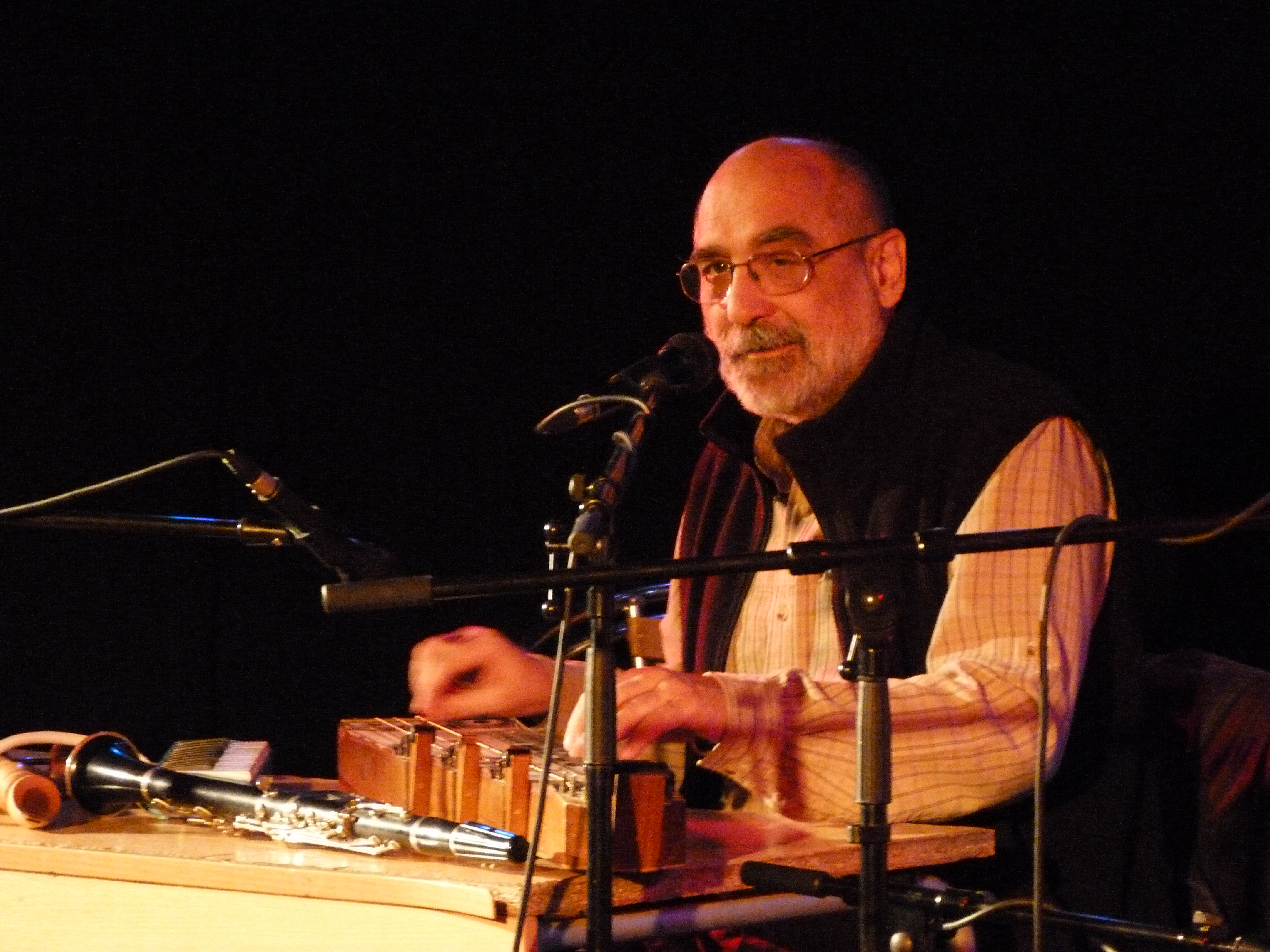 Live on the 30th of january, 2012. Downtown Budapest, Magyarország. Gödör Farewell Party (Víg Végnapjaink Fesztivál). Gryllus Dániel. Published under Creative Commons in the Metapolisz DVD line. A felvételek 2012. január 30-án, hétfőn készültek Budapest belvárosában, a Gödör Klubban. A Design Terminál 2012. február 1–től átvette a hely üzemeltetését. Az addigi üzemeltető szerződése január végén lejárt. Az új Akvárium nevű klub programszervezője a Volt Fesztivál és a Balaton Sound programigazgatója, Muraközy Péter lett. Filep Ákos, a hely addigi üzemeltetője a Gödör Klubnak új helyet keresett. Gryllus Dániel. Megjelent Creative Commons alatt a Metapolisz DVD sorozatban. Tags: Gödör Farewell Party Víg Végnapjaink Fesztivál 2012 január 30 Budapest Downtown Magyarország Metapolisz DVD line Források: Búcsú az Erzsébet tértől – Gödör Klub „Február 1-tól ez nem a mi helyünk" - megszűnik a Gödör